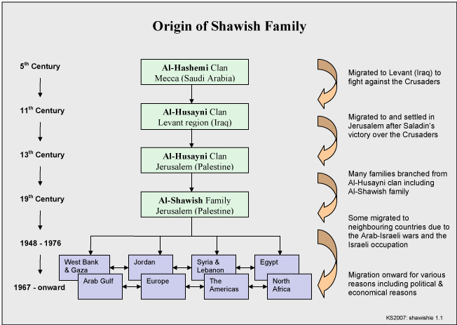 Origin of Shawish family graph